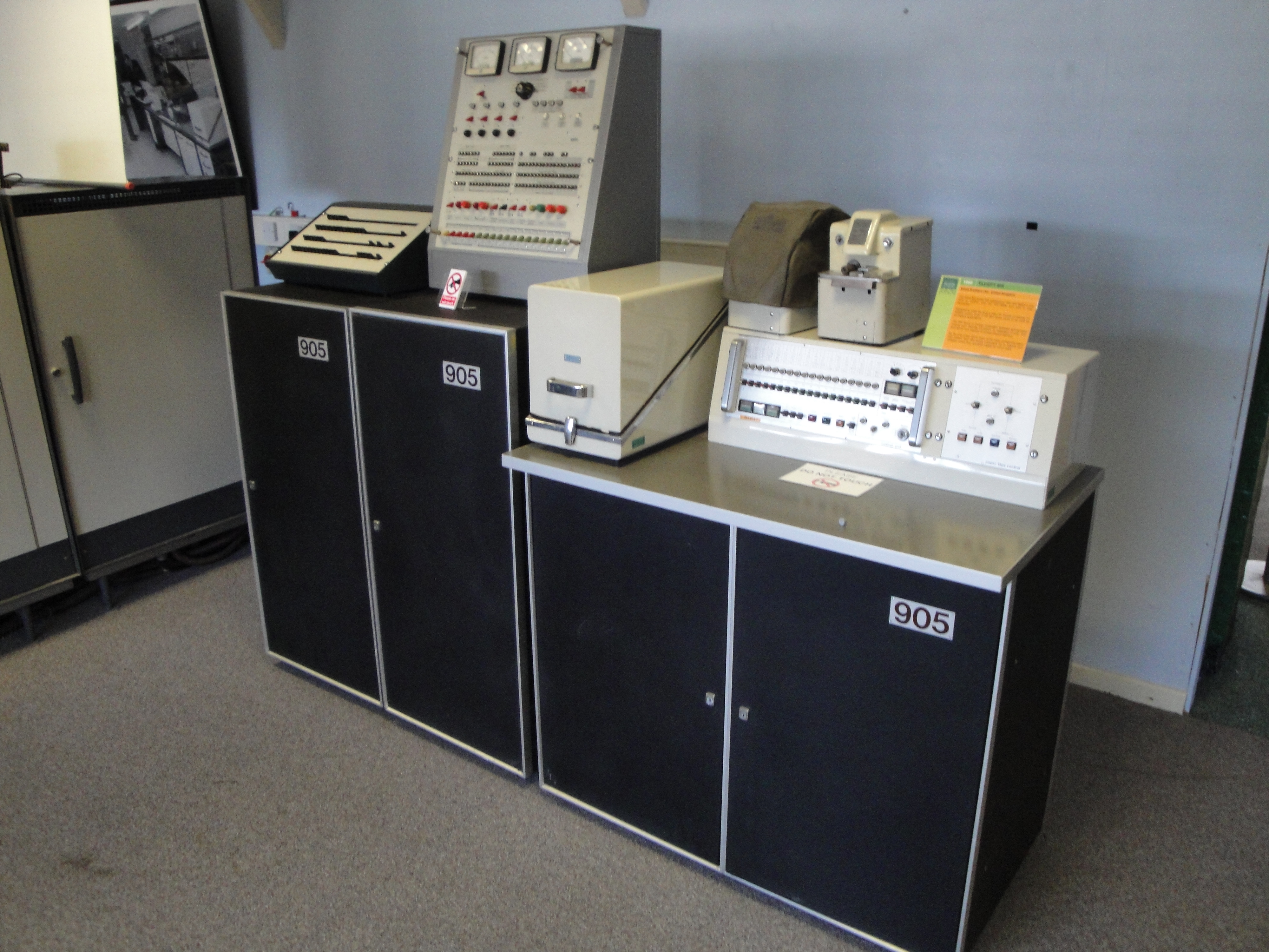 Elliott 905 computer photographed at The National Museum of Computing, Bletchley, UK.